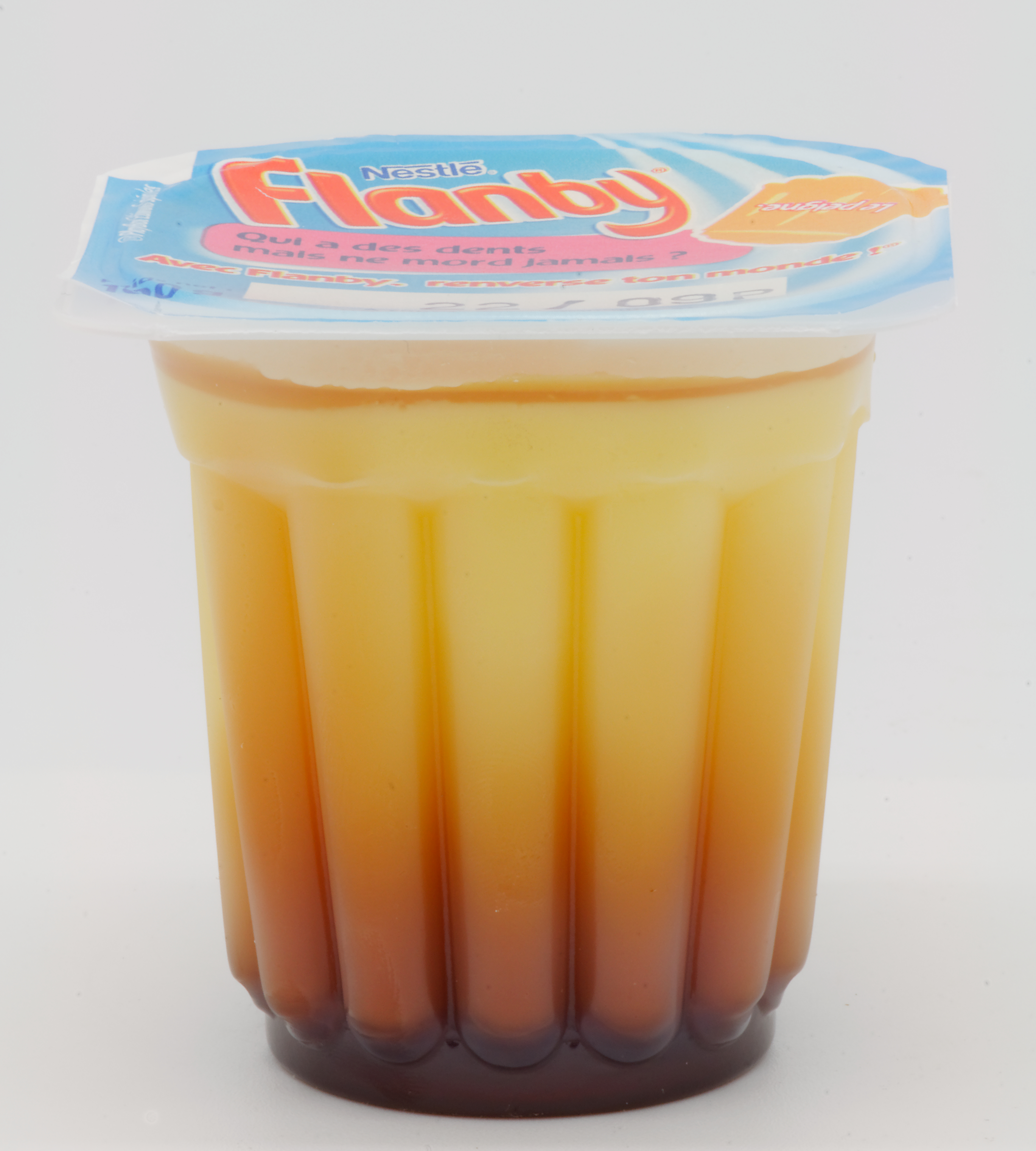 A Flanby in its pot.